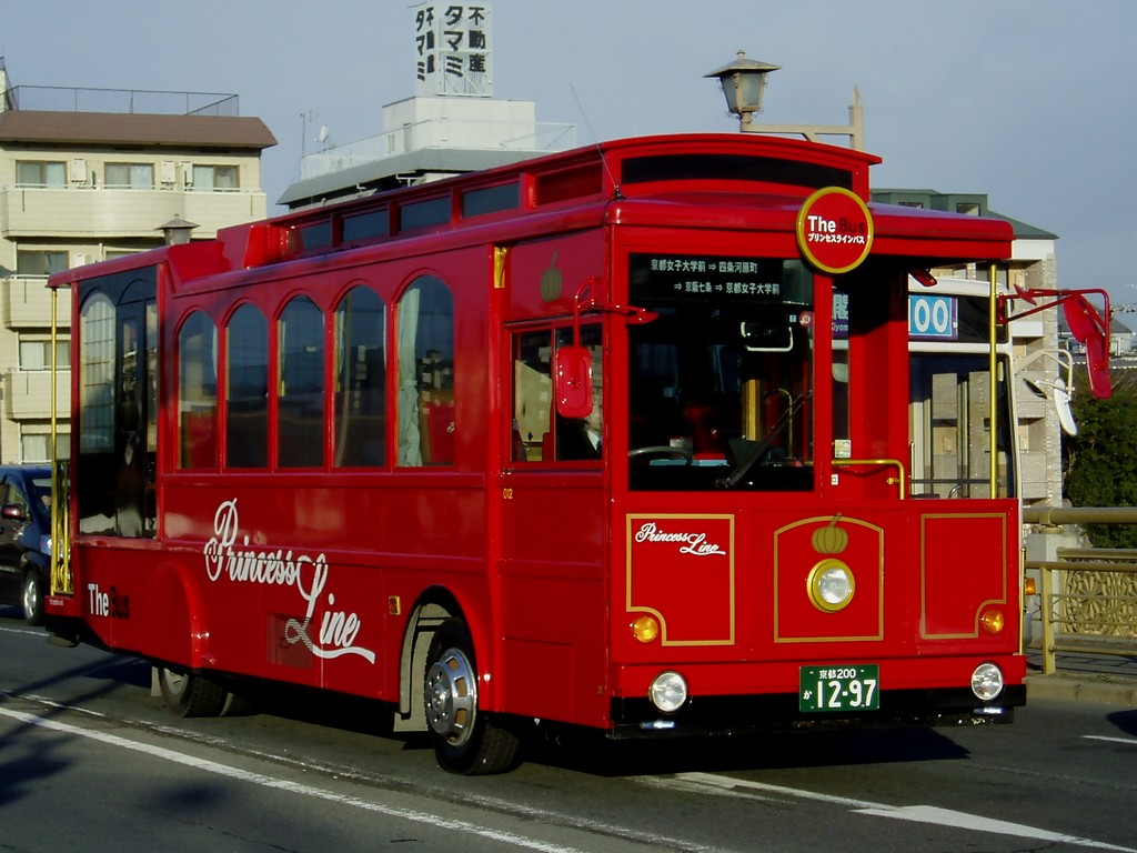 Hino special Body for Ceremony Sightseeing